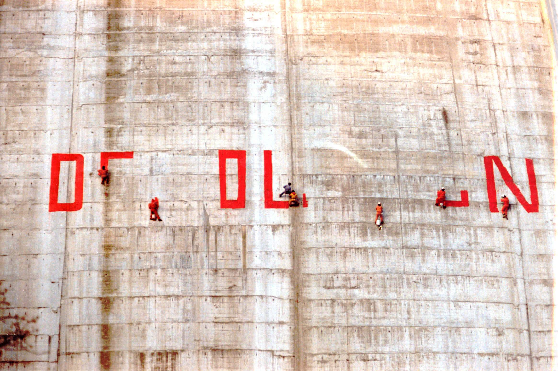 Activists against the disappearance of the Riaño Valley painting on the dam "DEMOLITION" in 1987